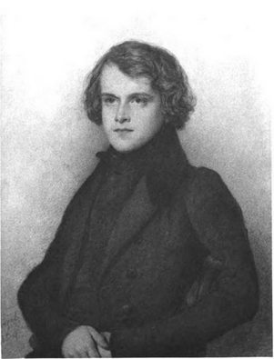 Seth Wells Cheney. Photogravure by John Andrew and Son. From a miniature painting by Dubourjal, 1834.